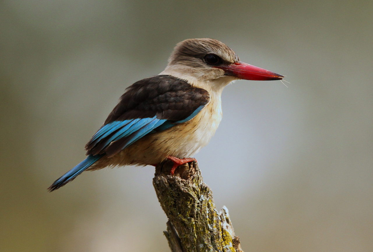 Male Brown-hooded Kingfisher, Halcyon albiventris caught a wasp, Tzaneen area, Limpopo, South Africa